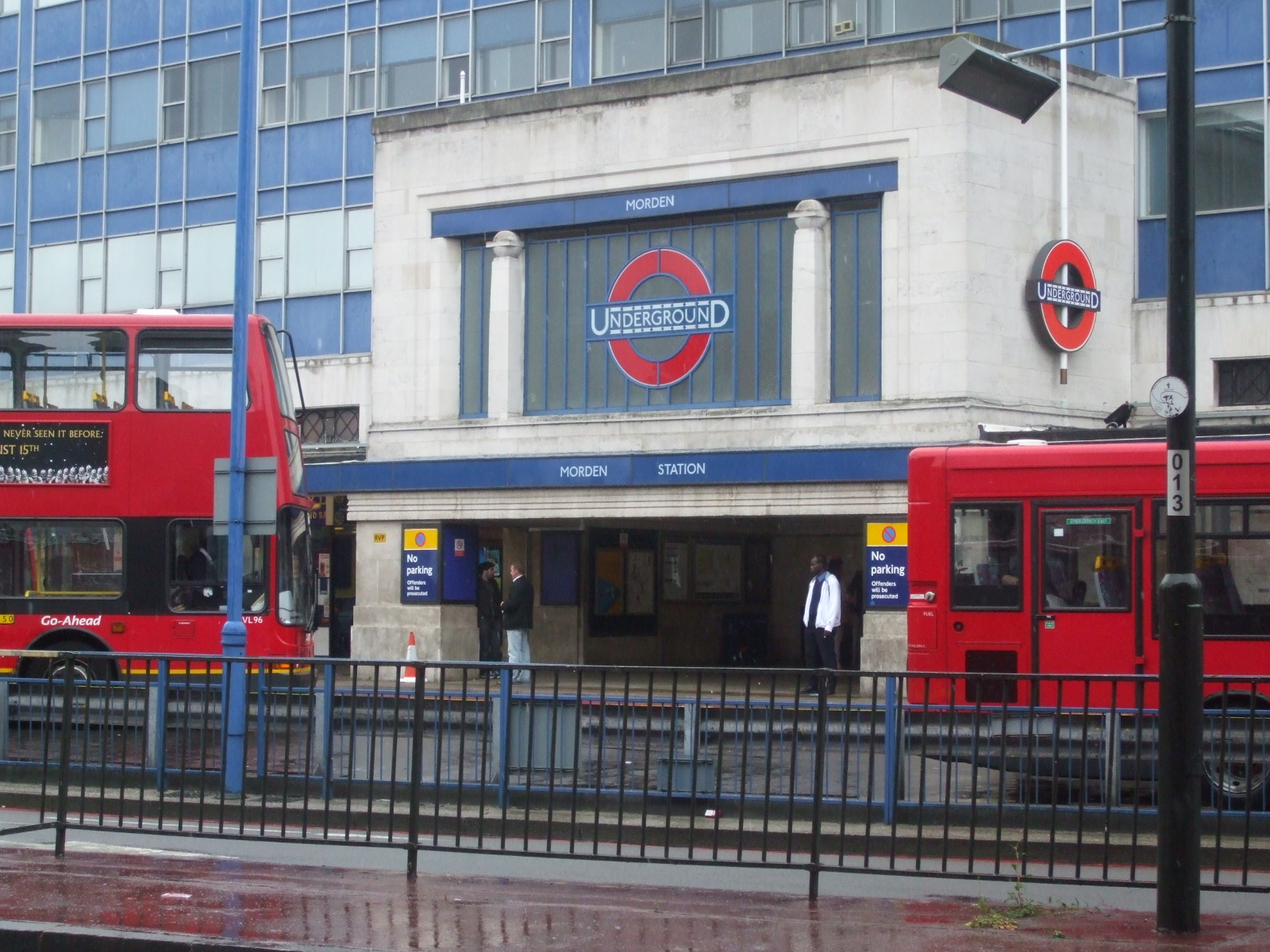 Morden tube station entrance and bus stand